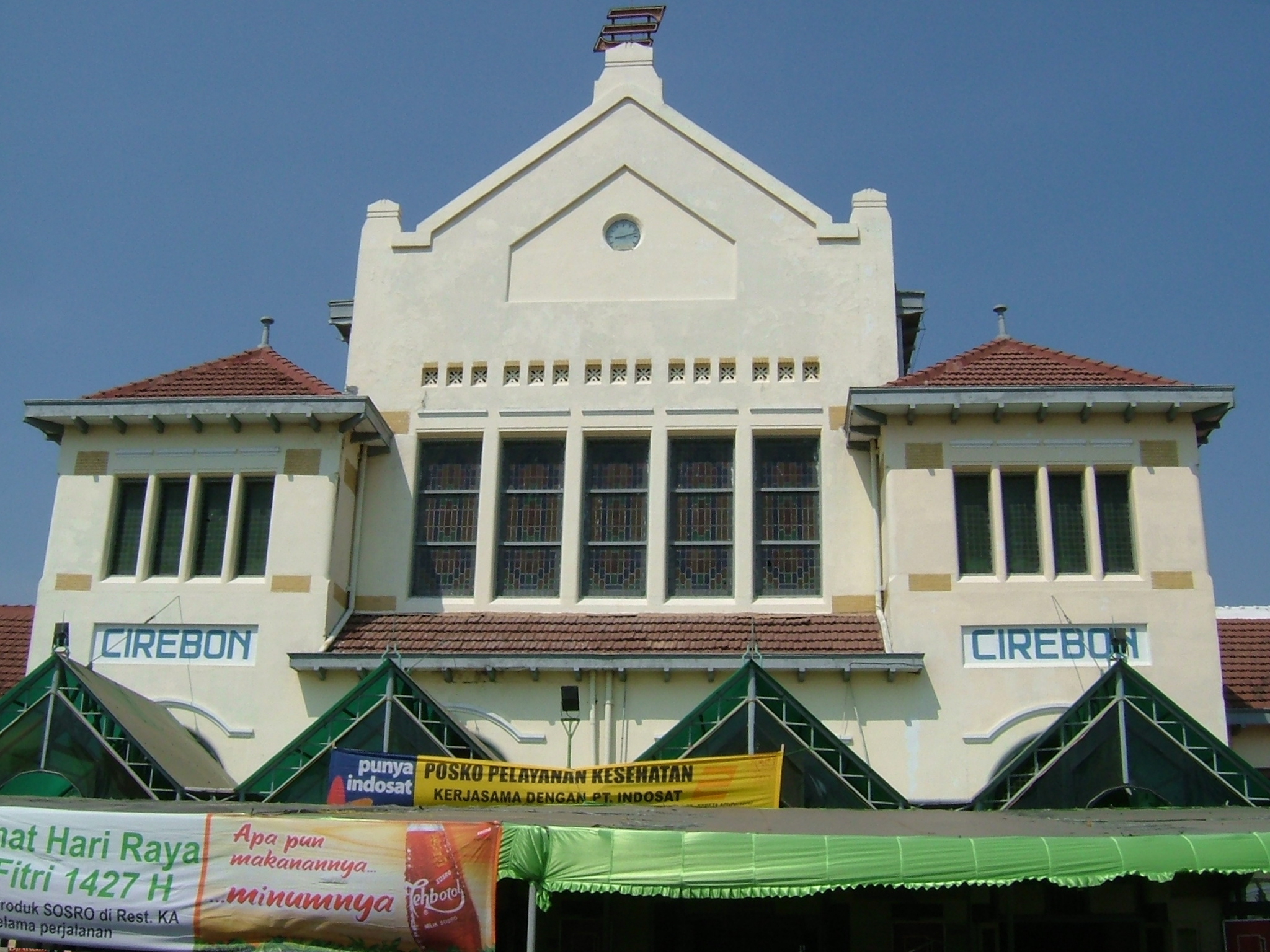 Cirebon station, West Java, Indonesia